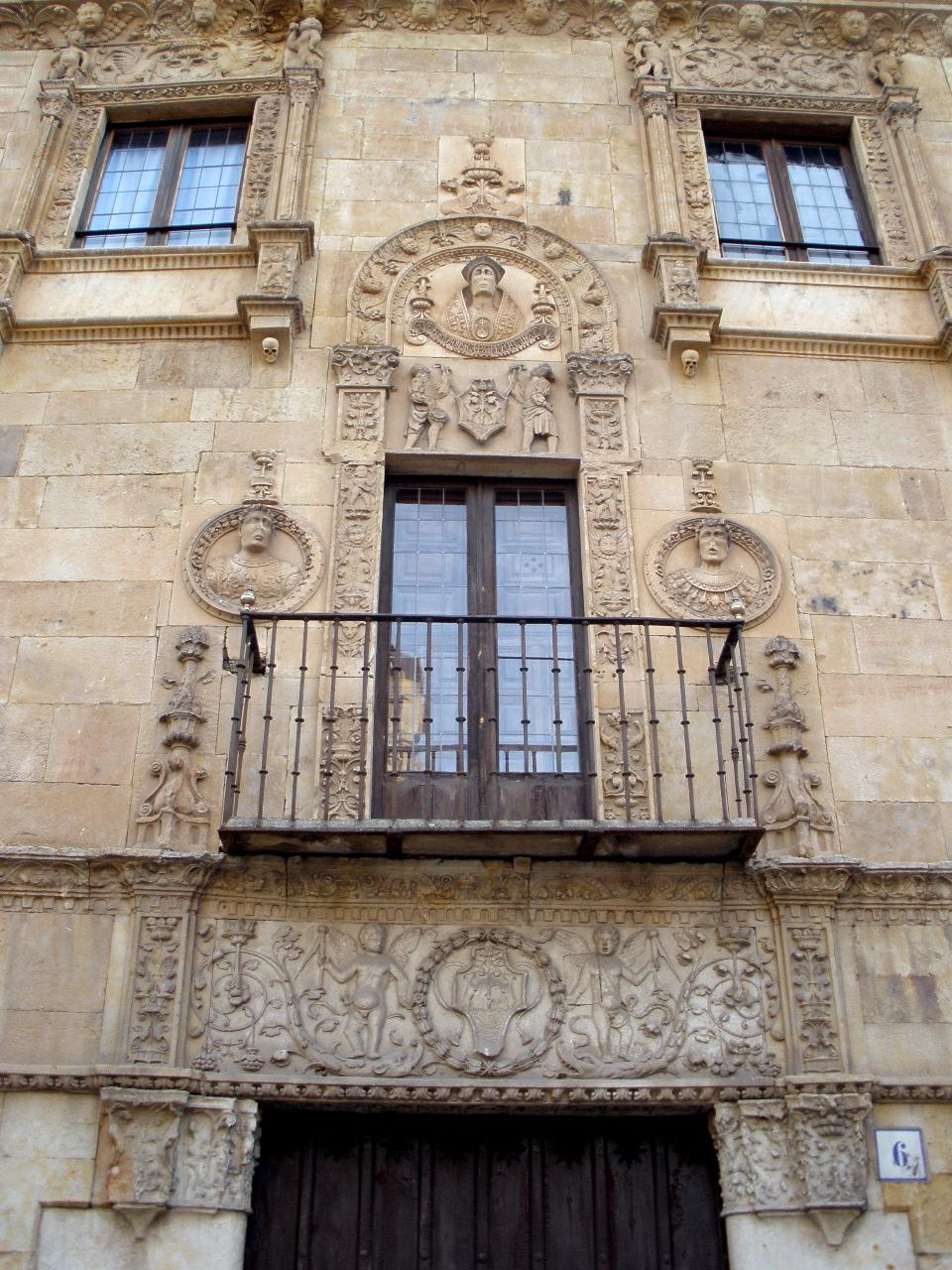 Casa de las Muertes, en Salamanca (España)